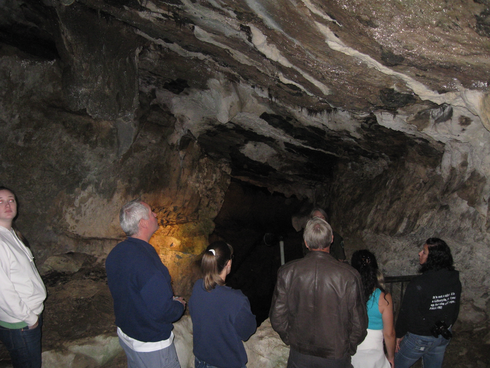 There are guided tours of Gardner Cave